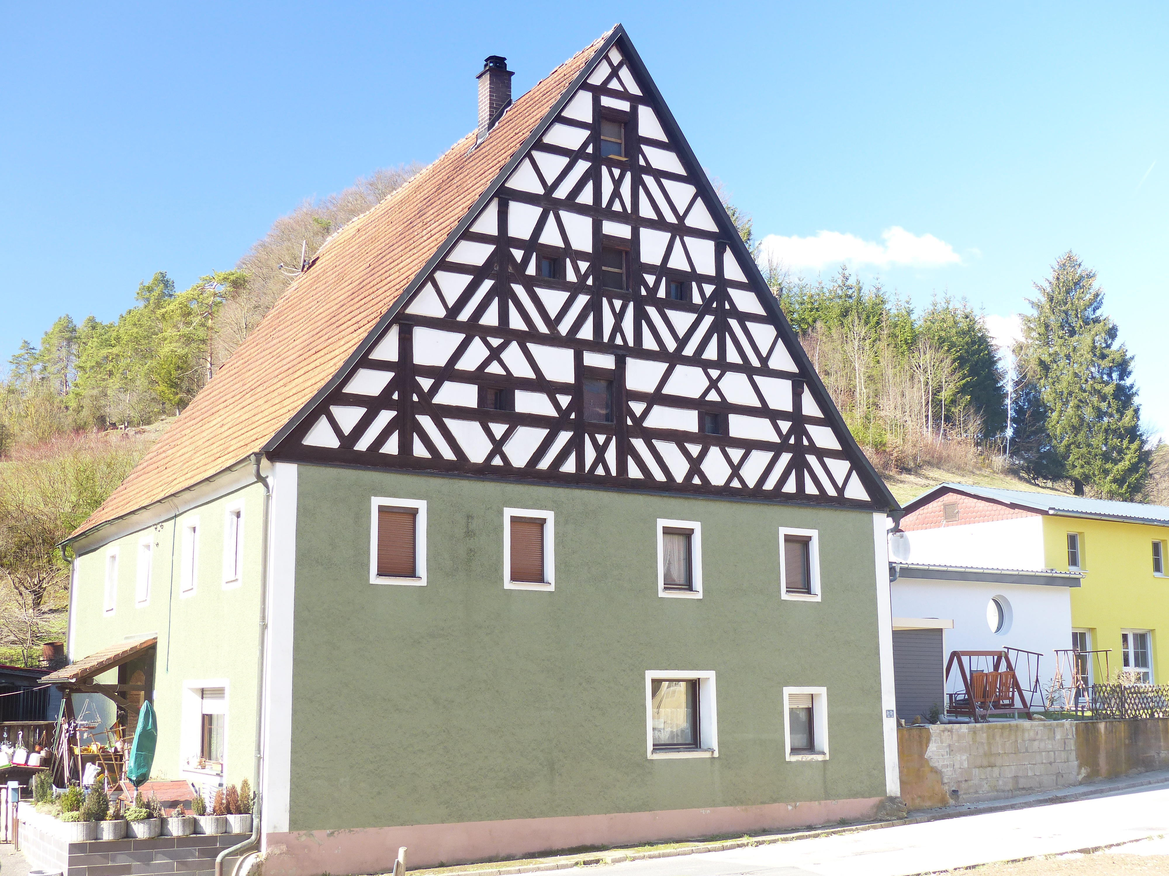 The farm with the house number 27 in the village Lehendorf, a district of the municipality Etzelwang